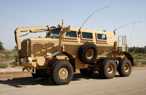 A Buffalo, built by Force Protection, Inc. of Ladson, South Carolina, of the Kansas Army National Guard’s 891st Engineer Battalion stands by to investigate a suspected IED that was spotted along the shoulder of a highway in southern Iraq. (Army photo by Master Sgt. Lek Mateo, 56th Brigade Public Affairs Office)